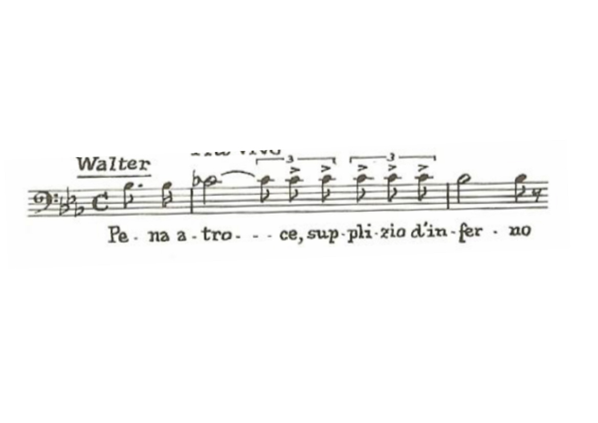 Score fragment from Giuseppe Verdi's 1849 opera Luisa Miller